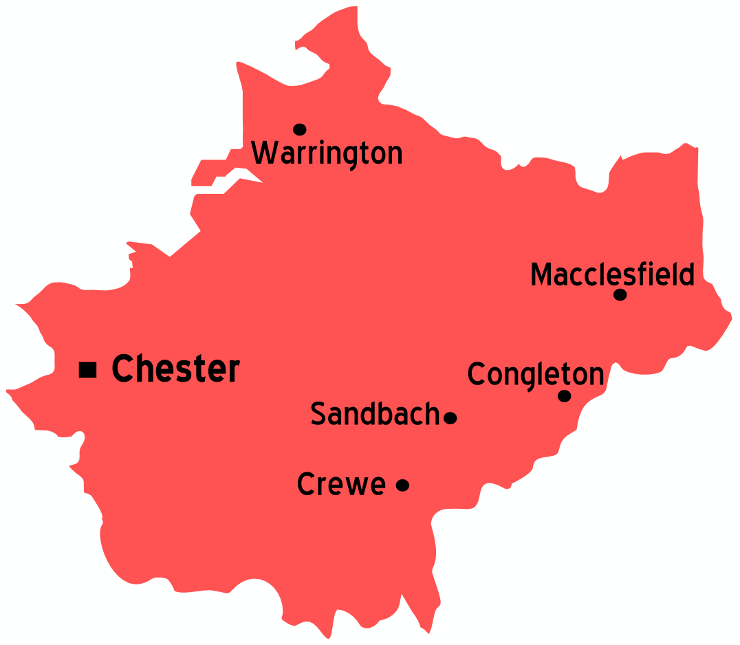 Map of Cheshire